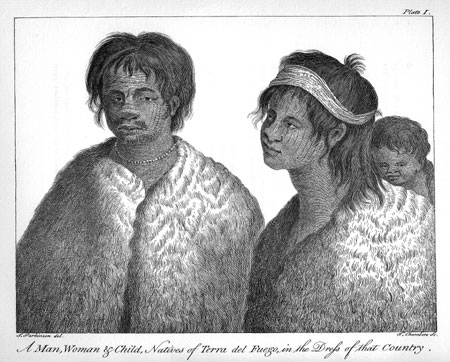 This is an image of a print entitled "A Man, Woman and Child, Natives of Terra del Fuego, in the Dress of that Country" by Sydney Parkinson.